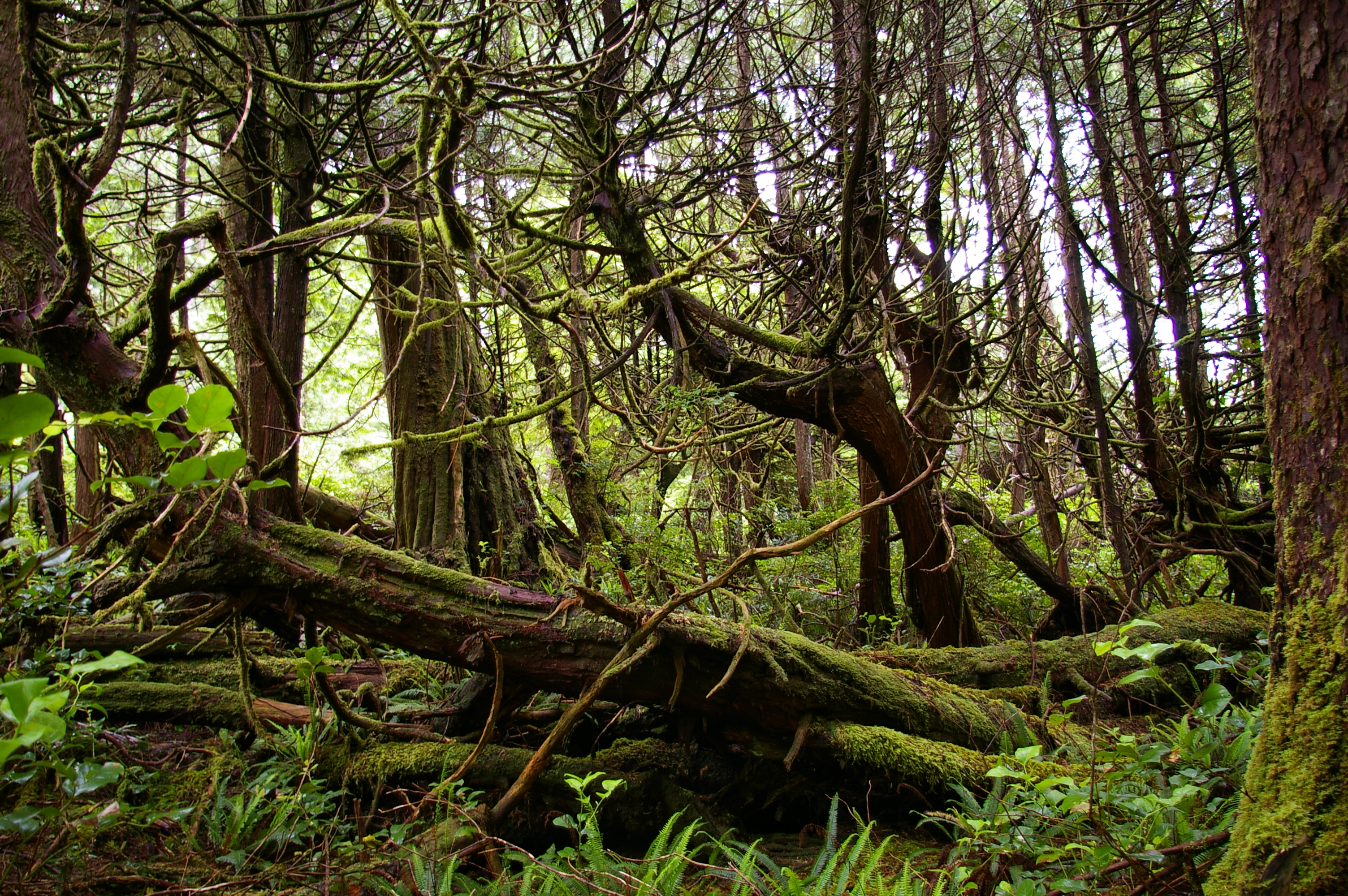 Nootka Cypress Cupressus nootkatensis along the trail to Skuna Bay, Nootka Island, Vancouver Island, British Columbia, Canada